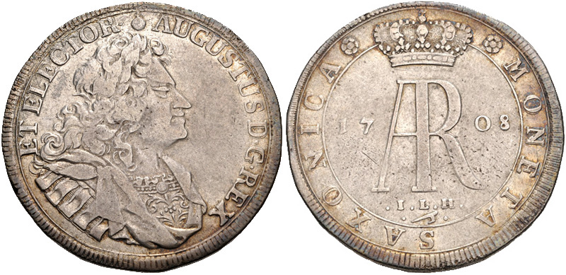 GERMANY, Sachsen-Albertinische Linie (Kurfürstentum). Friedrich August I (August II von Polen). 1694-1733. AR Reichstaler (41mm, 28.74 g, 9h). Dresden mint. Dated 1708. Laureate, draped, and cuirassed bust right / Crowned monogram. Davenport 2650. Fine, a few peck marks and light porosity.